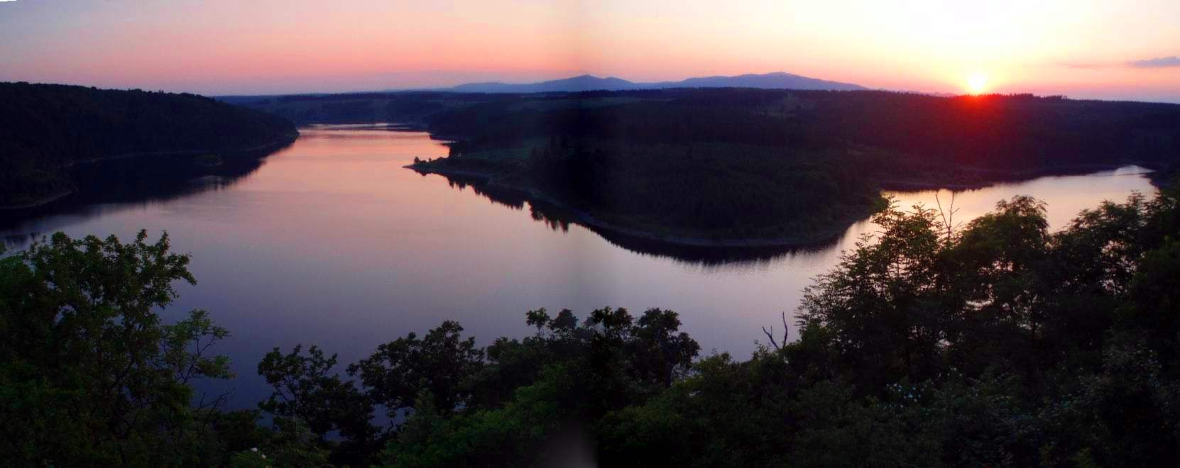 View over the Rappbode Reservoir from the Roter Stein, Saxony-Anhalt, Germany